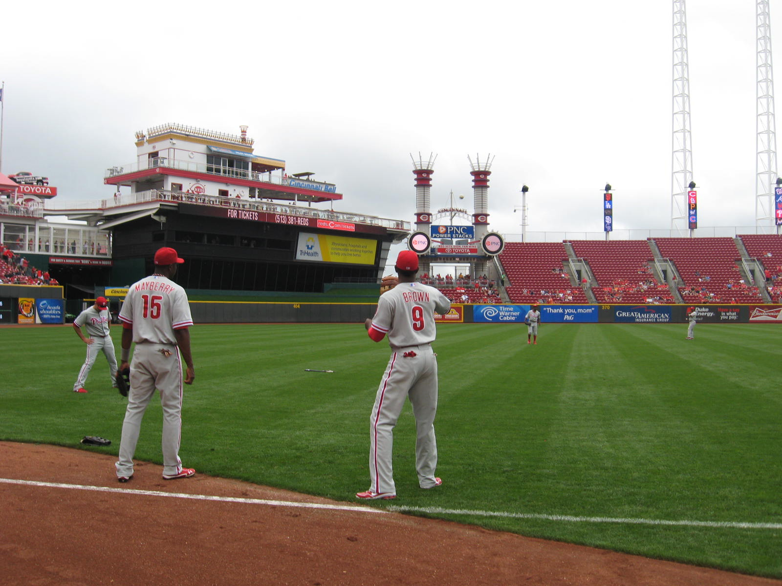 Phillies vs. Reds, Labor Day 2012